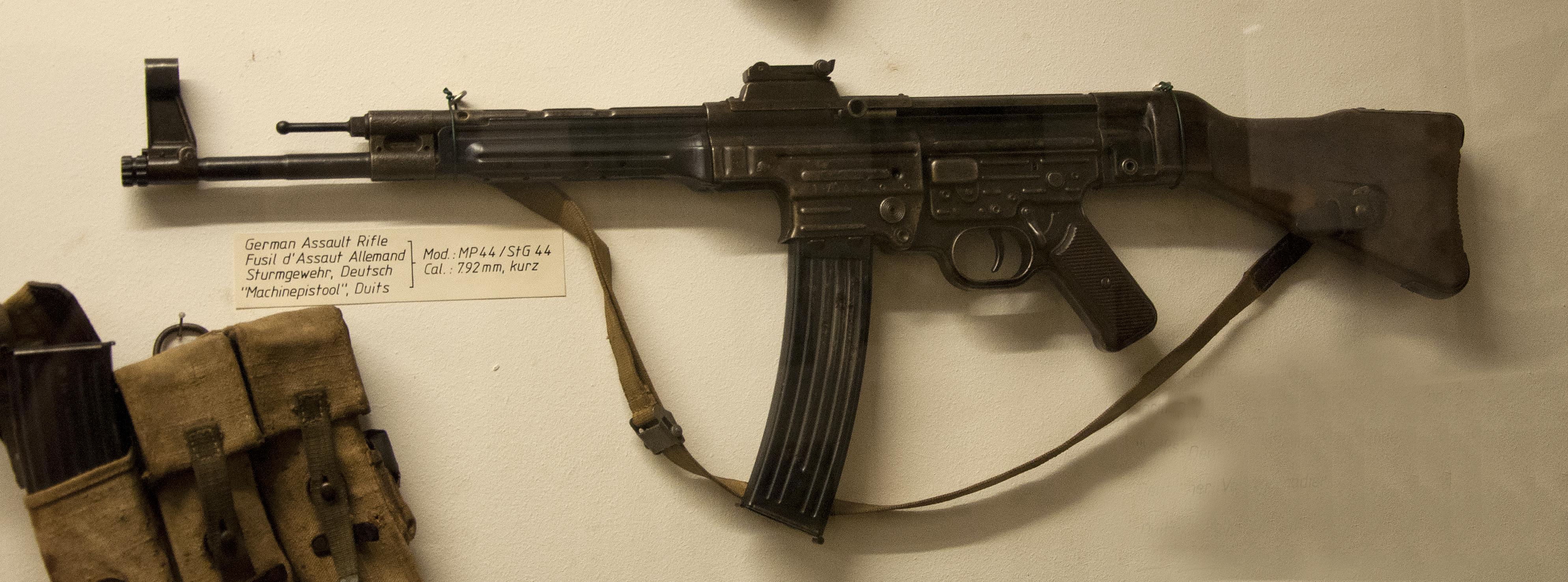 A sturmgewehr at the Nationales Militärgeschichtliches Museum in Diekirch